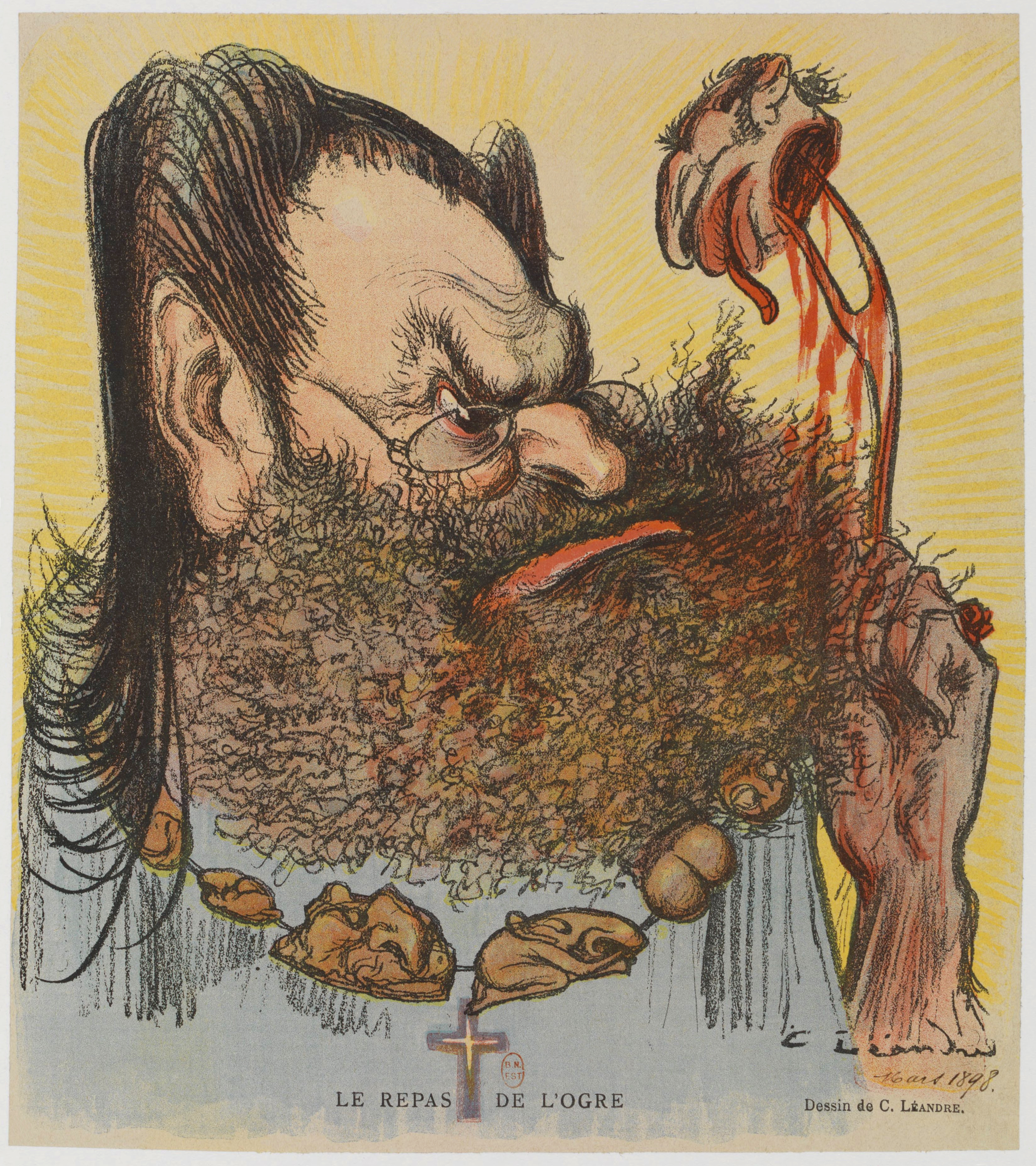 "The meal of the ogre" - caricature of the anti-Semitic journalist Edouard Drumont by Charles Léandre, on the cover of the newspaper "Le Rire" No. 174, March 5, 1898